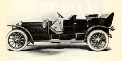 1908 Lozier touring car, Model I. Image scanned from the "Handbook of Gasoline Automobiles" copyright date 1908 by the Association of Licensed Automobile Manufacturers